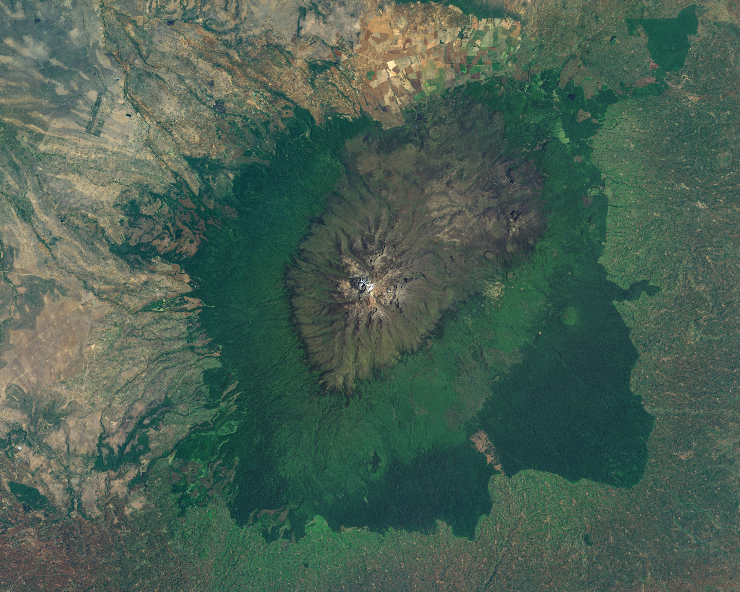 Mount Kenya, viewed from space.